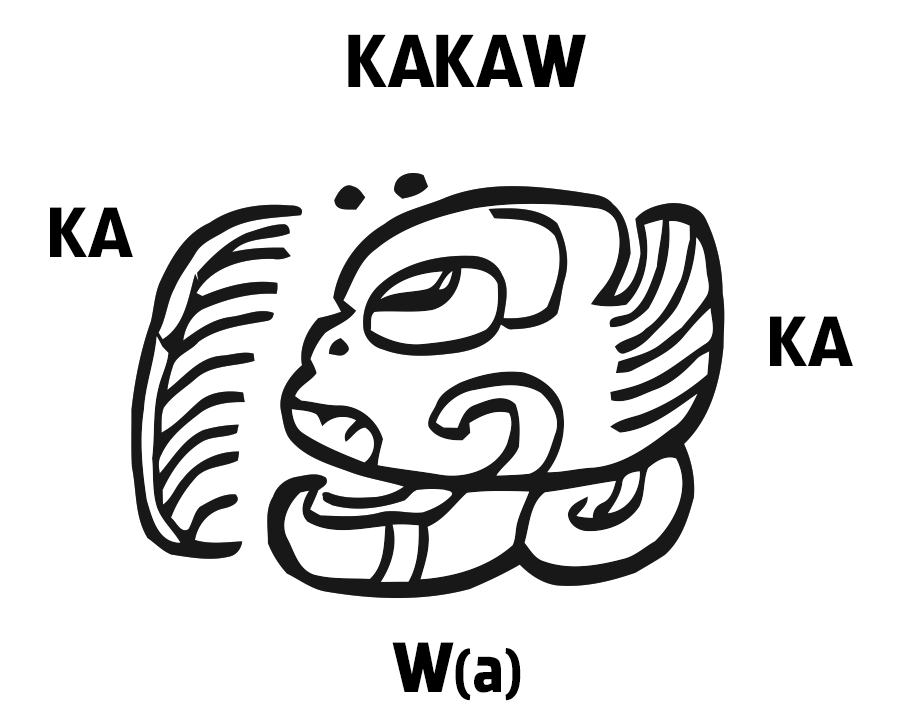 Maya Glyph for Cacao, with phonetical explanation.